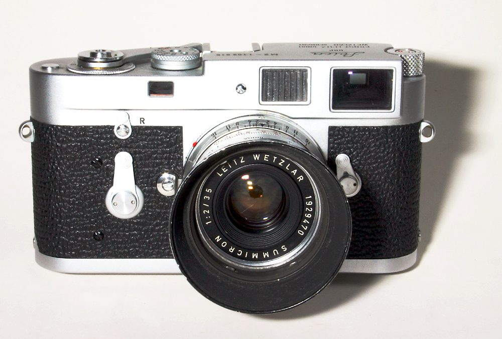 Leica M2 rangefinder camerawith Summicron 35 mm f/2 lens